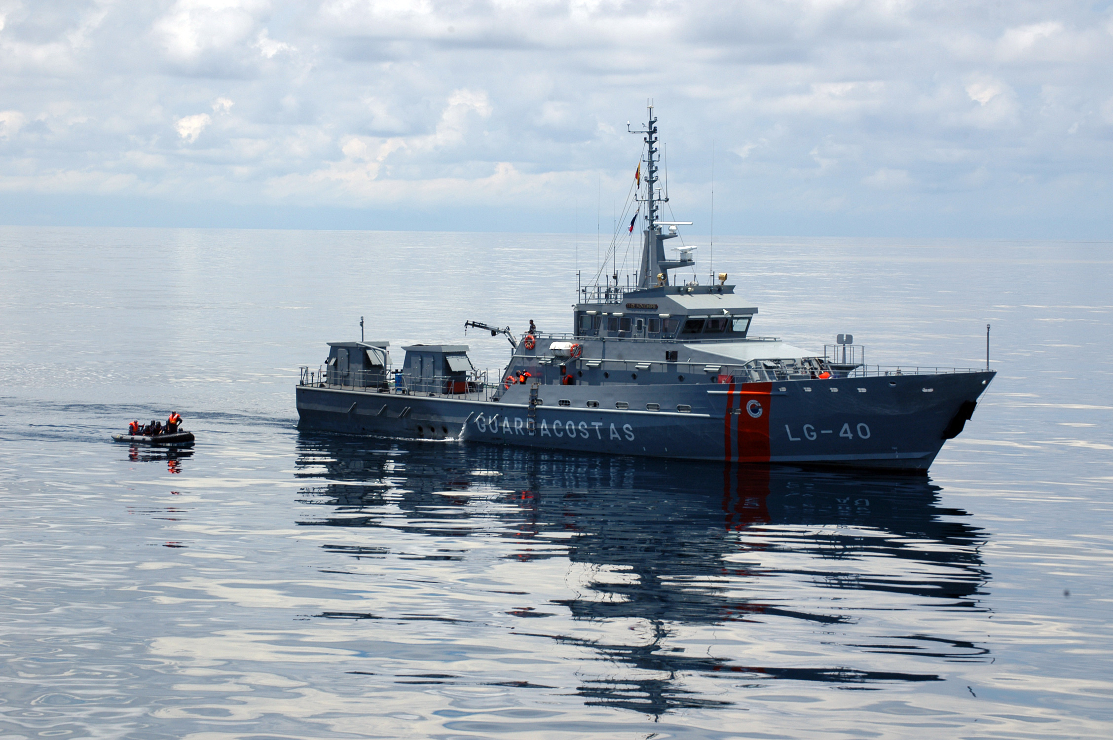 PACIFIC OCEAN (Sept. 2, 2007) – A rigid hull inflatable boat prepares to embark Ecuadorian surface combat ship LAE 11 De Noviembre (LG 40) to conduct a visit, board, search and seizure training exercise during PANAMAX 2007. PANAMAX 2007 is a joint and multinational training exercise tailored to the defense of the Panama Canal, involving civil and military forces from the region. U.S. Navy photo by Mass Communication Specialist 2nd Class Alexia M. Riveracorrea (RELEASED)